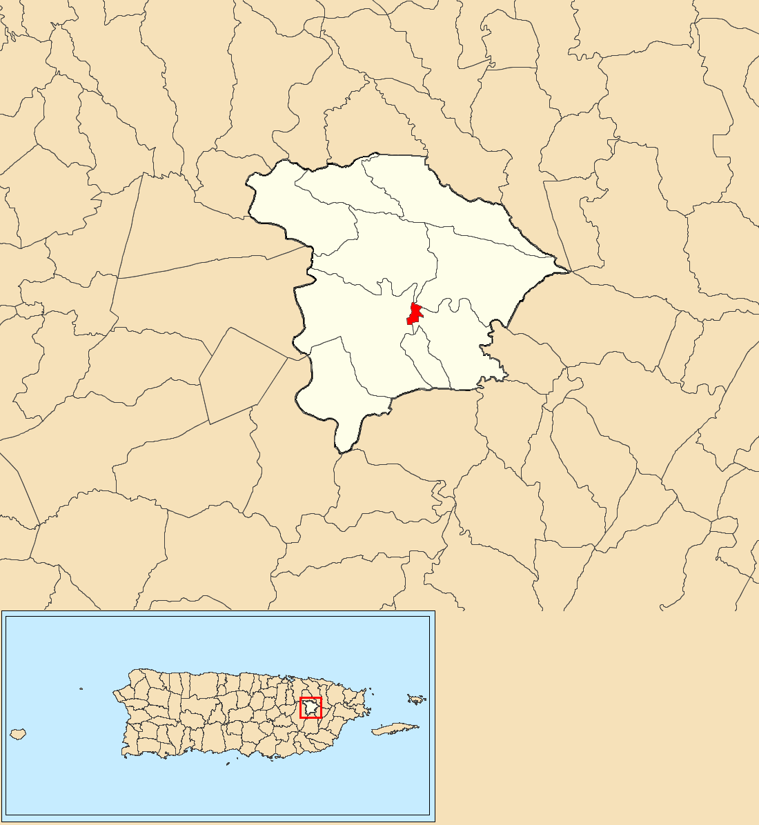 Gurabo barrio-pueblo, Gurabo, Puerto Rico locator map